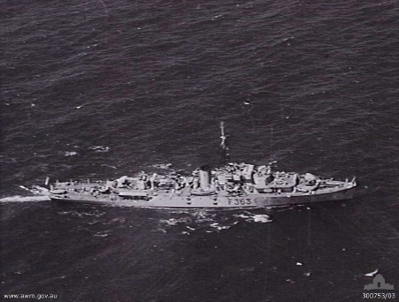 Aerial photograph of Royal Australian Navy frigate HMAS Hawkesbury.